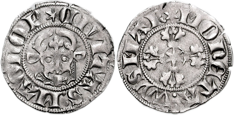 Germany, Mecklenburg-Wismar (Stadt). AR Witten (19mm, 1.23 g, 9h). Struck for the recess of 1379. Bull’s head facing Cross fleurée, star in center. Kunzel 2; Jesse 365; Oertzen 258. Good VF.